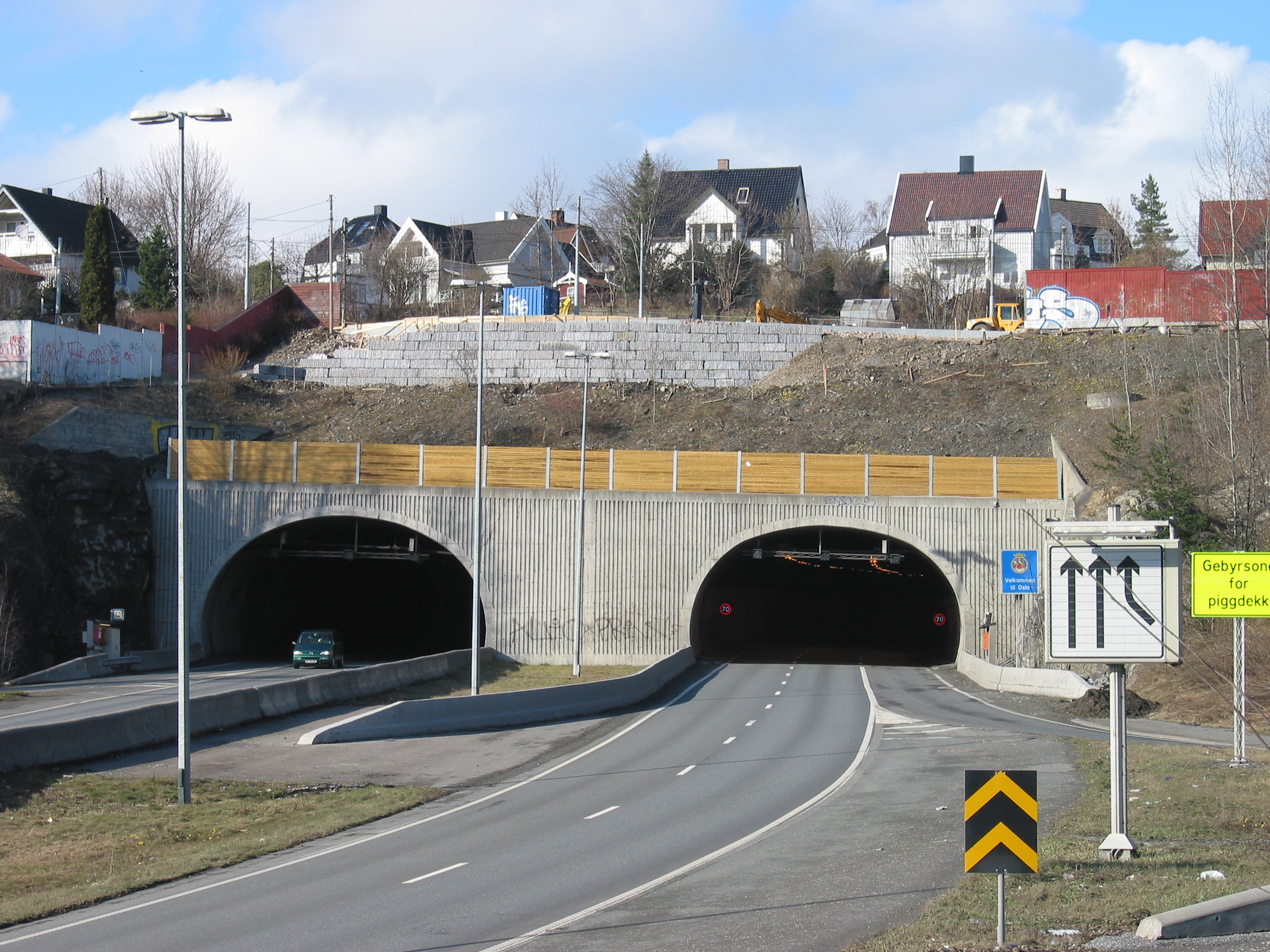 The northernmost of the two Granfos Tunnels, seen from the south, April 2009. Above it, slightly to the right in this picture, lies Lilleaker station.